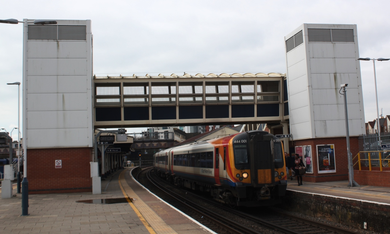 South Western Railway's 444001 calls at Fratton with a service from Portsmouth Harbour to London Waterloo.